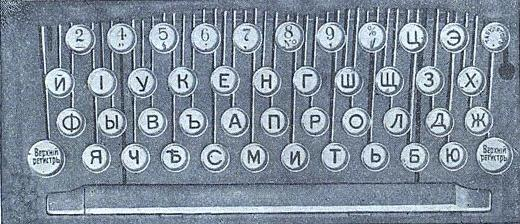 Typewriter with JIUKEN layout